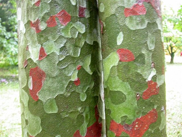 Pinus bungeana bark